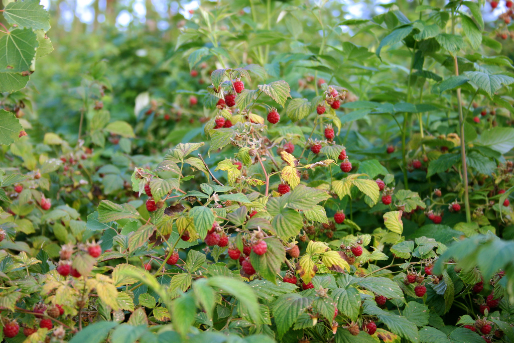 Wild Rubus idaeus in Finland.